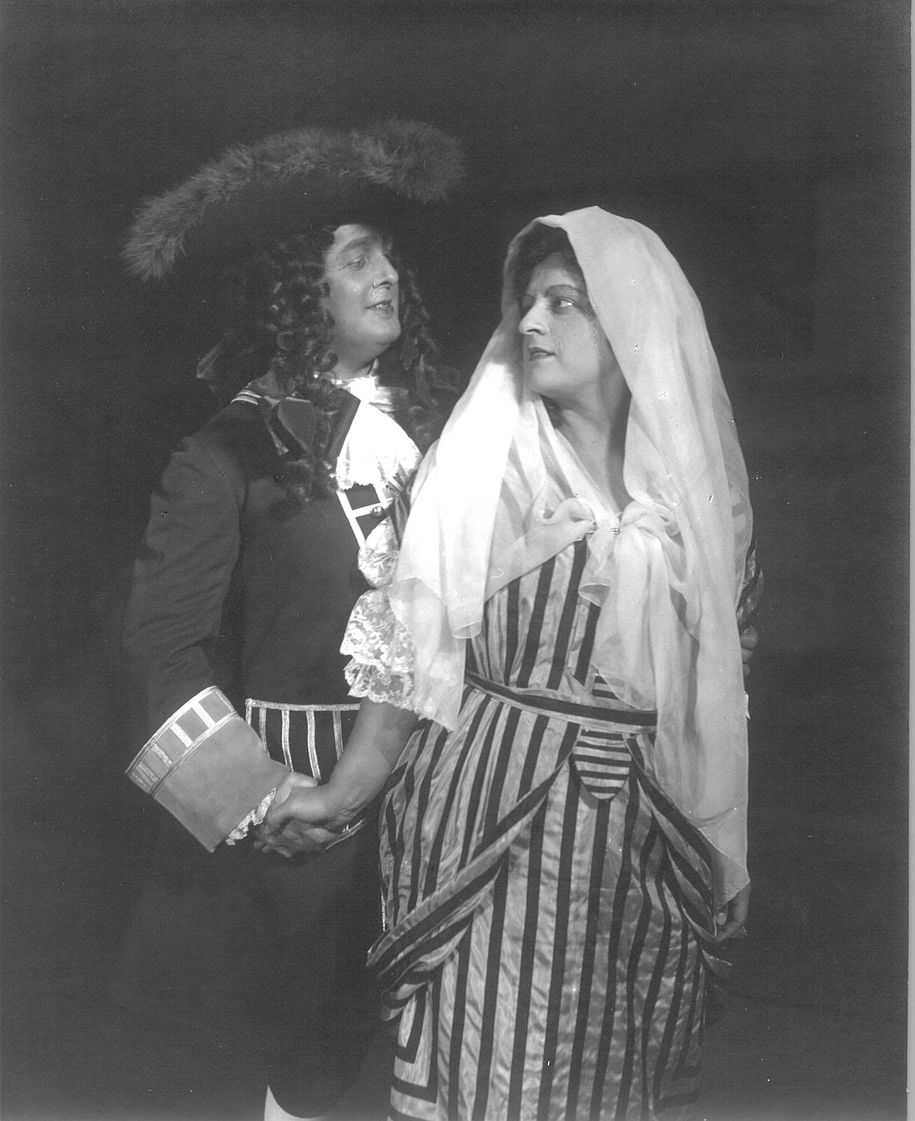 Cardillac. Opera by Paul Hindemith with Libretto by Ferdinand Lion from story by E. T. A. Hoffmann. Performed at the Staatsoper Dresden, on 09.11.1926 Conducted by Fritz Busch. Scene III. Act with Max Hirzel as the Officer and Claire Born as the Daughter of Cardillac. Photo: Richter, Ursula, 1926.11 Authentication-Number: df_pos-2009-a_0001220 Original (Paper, 14,4 x 11,7 cm, black and white) Owner: SLUB / Deutsche Fotothek Datensatz 87601059 PERMALINK: Author of the metadata: Deutsche Fotothek